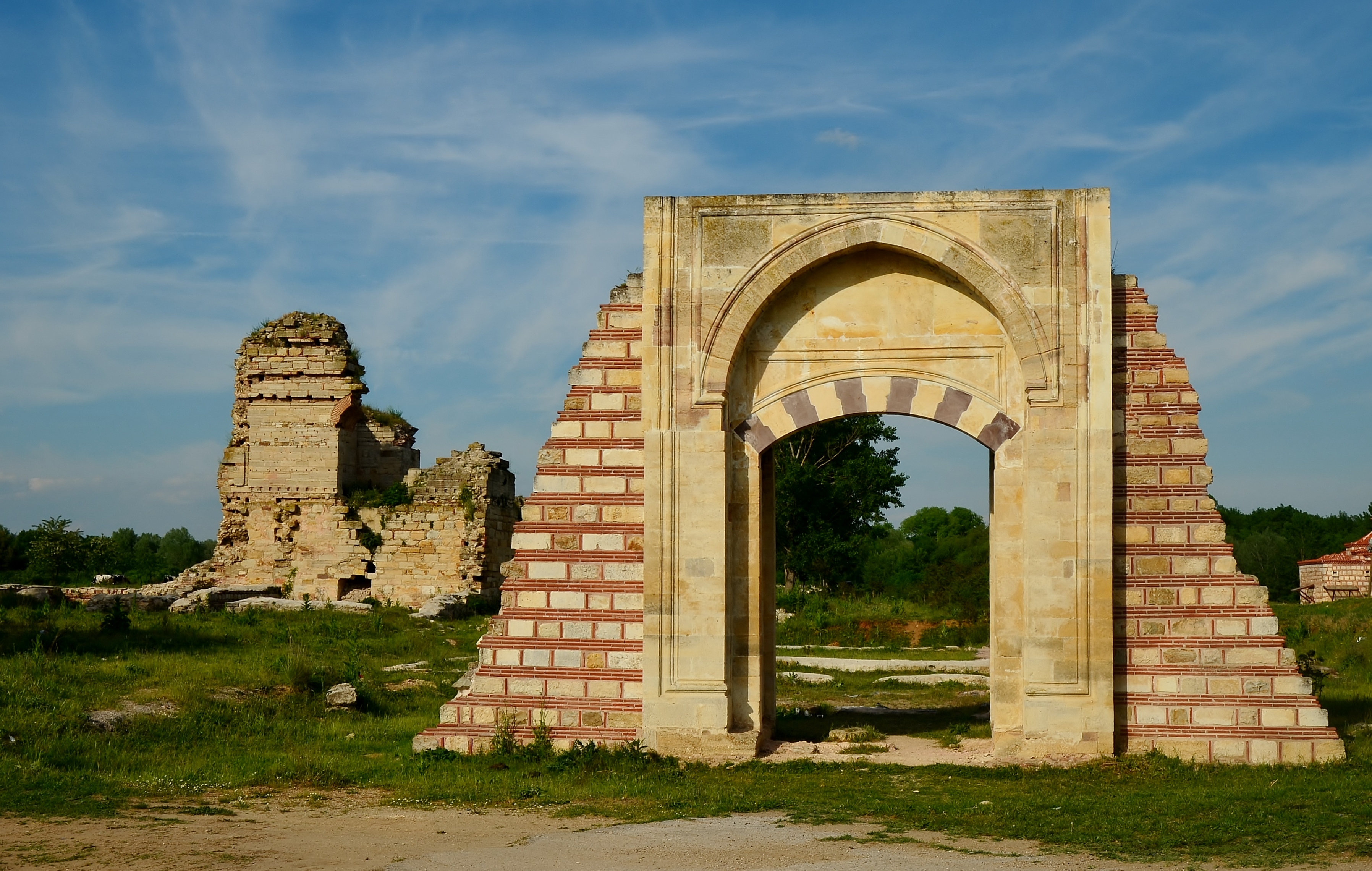 Bab'üs Sa'ade (Felicity Gate) of Edirne Palace, Turkey